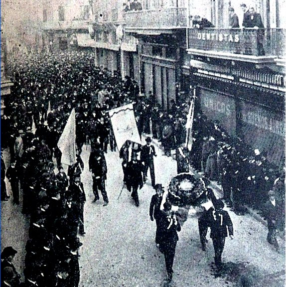 UCR rally on the anniversary of the Revolution of 1890.